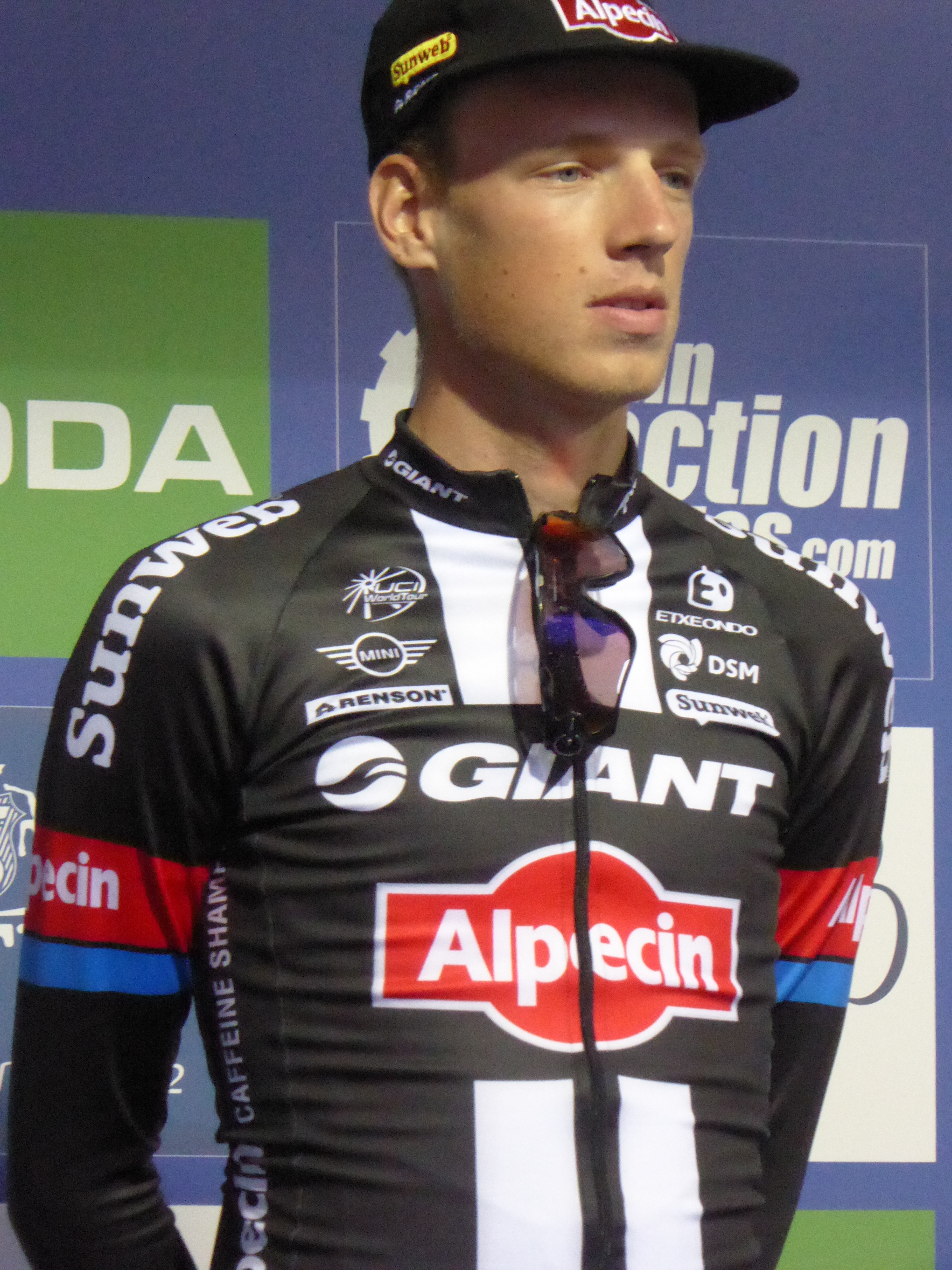 Martijn Tusveld (Team Giant-Alpecin stagiaire), pictured at the 2016 Tour of Britain team presentation in Glasgow on 3 September 2016.